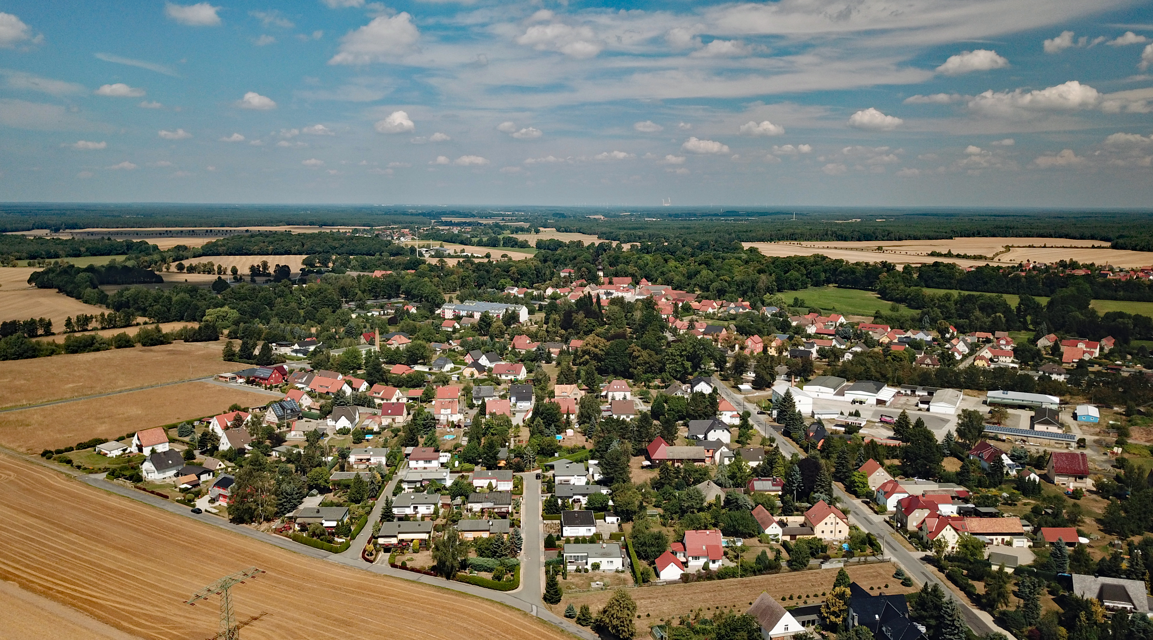 Neschwitz (Saxony, Germany) Hornjoserbsce: Powětrowy wobraz Njeswačidła